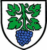 Blazon of St. Margrethen, Canton of St. Gallen - Blazono de St. Margrethen, Kantono de Sankt-Galo